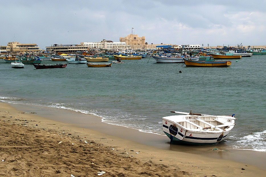 Alexandria/Egypt, beach own photo, feb 12, 2005 photo: nomo/michael hoefner